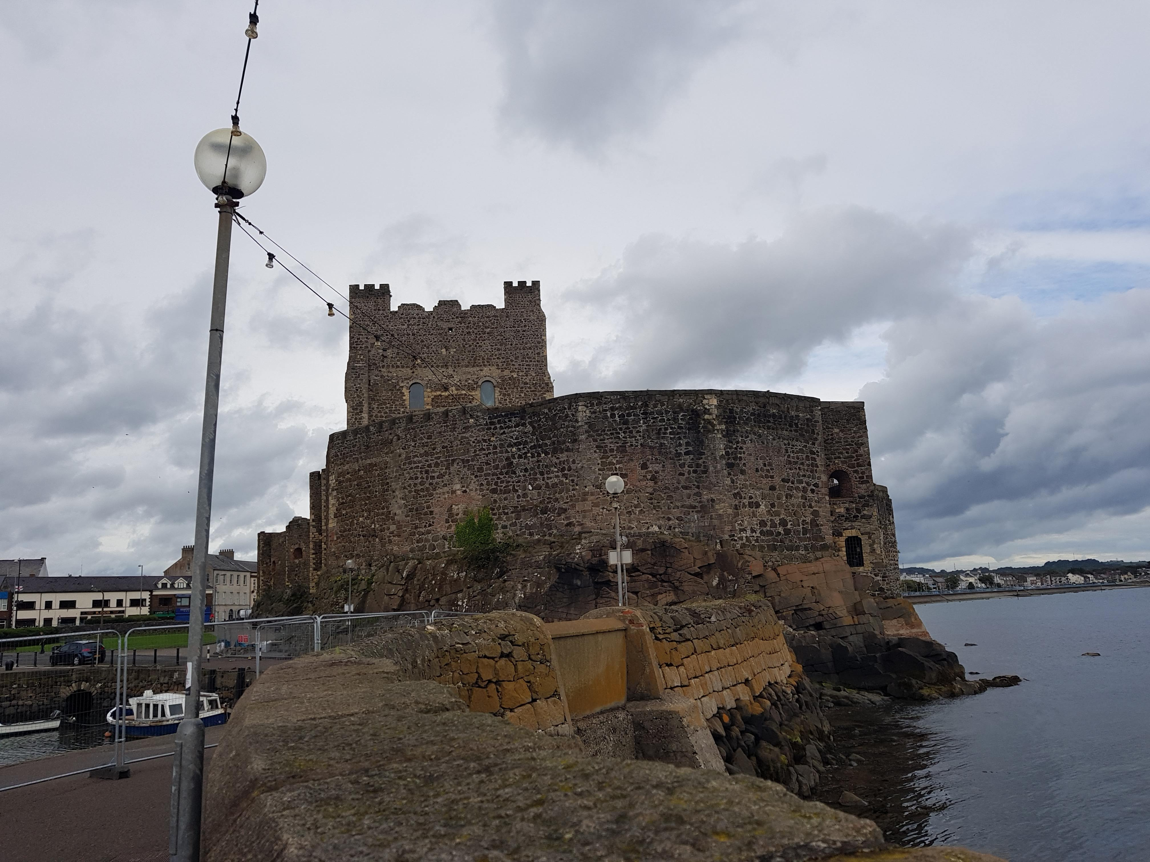 Carrickfergus Castle, Carrickfergus, Northern Ireland